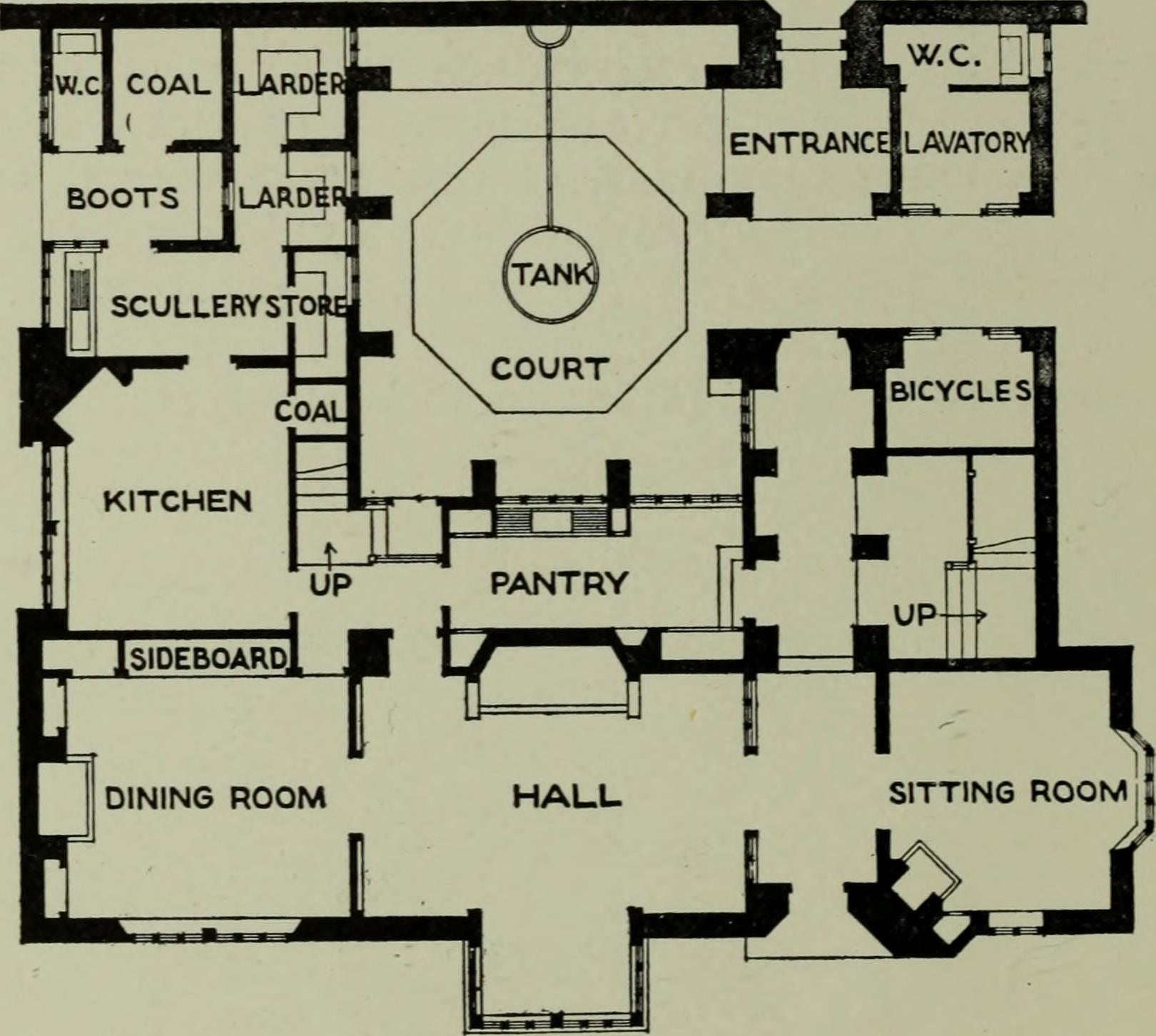 Illustration from "Lutyens houses and gardens" (1921): The Deanery Garden, Sonning, Berkshire.